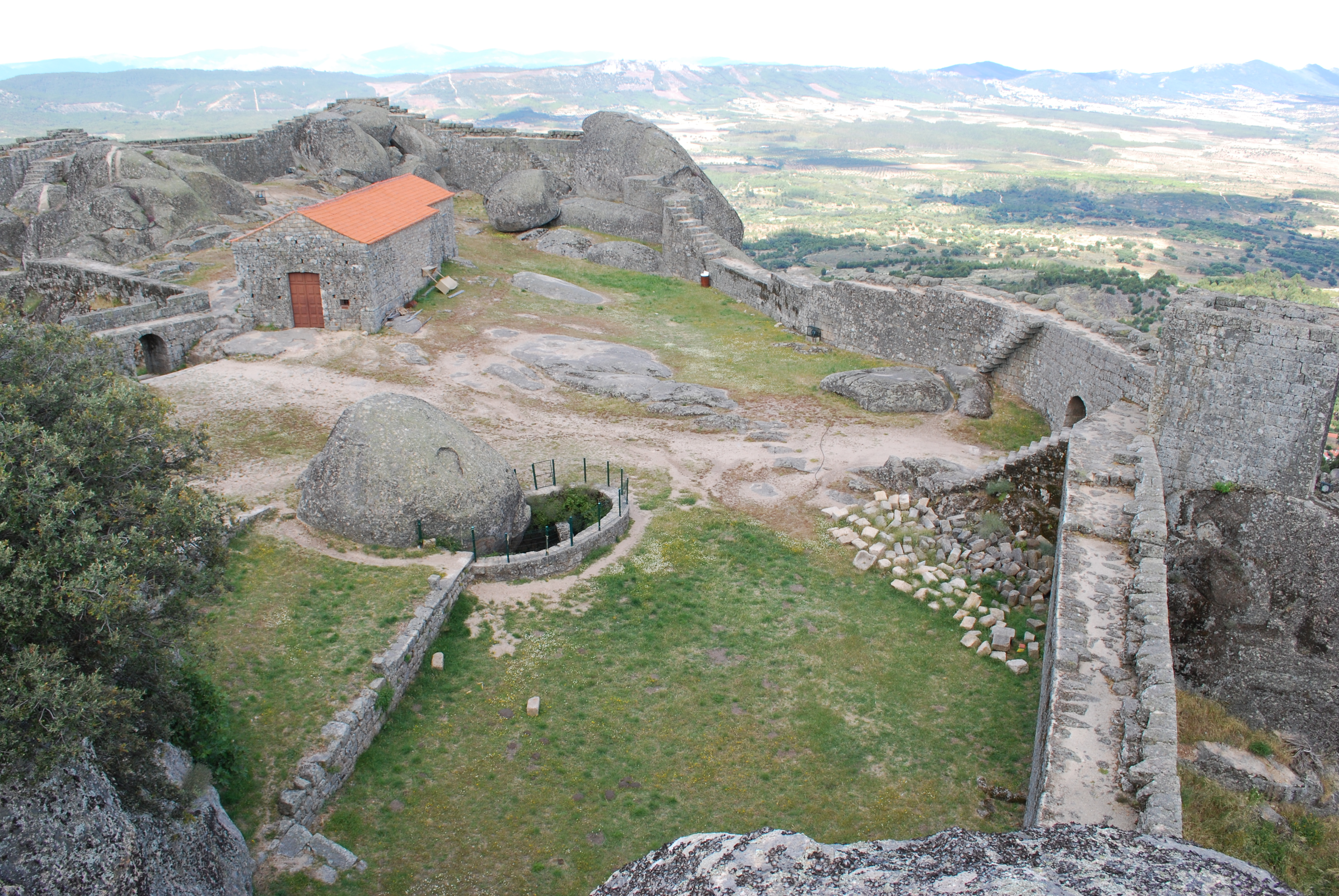 This monument is classified as Monumento Nacional. This file was uploaded for Wiki Loves Monuments in Portugal with the unique identifier 69865.